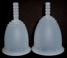 Fleurcup Menstrual cup sizes